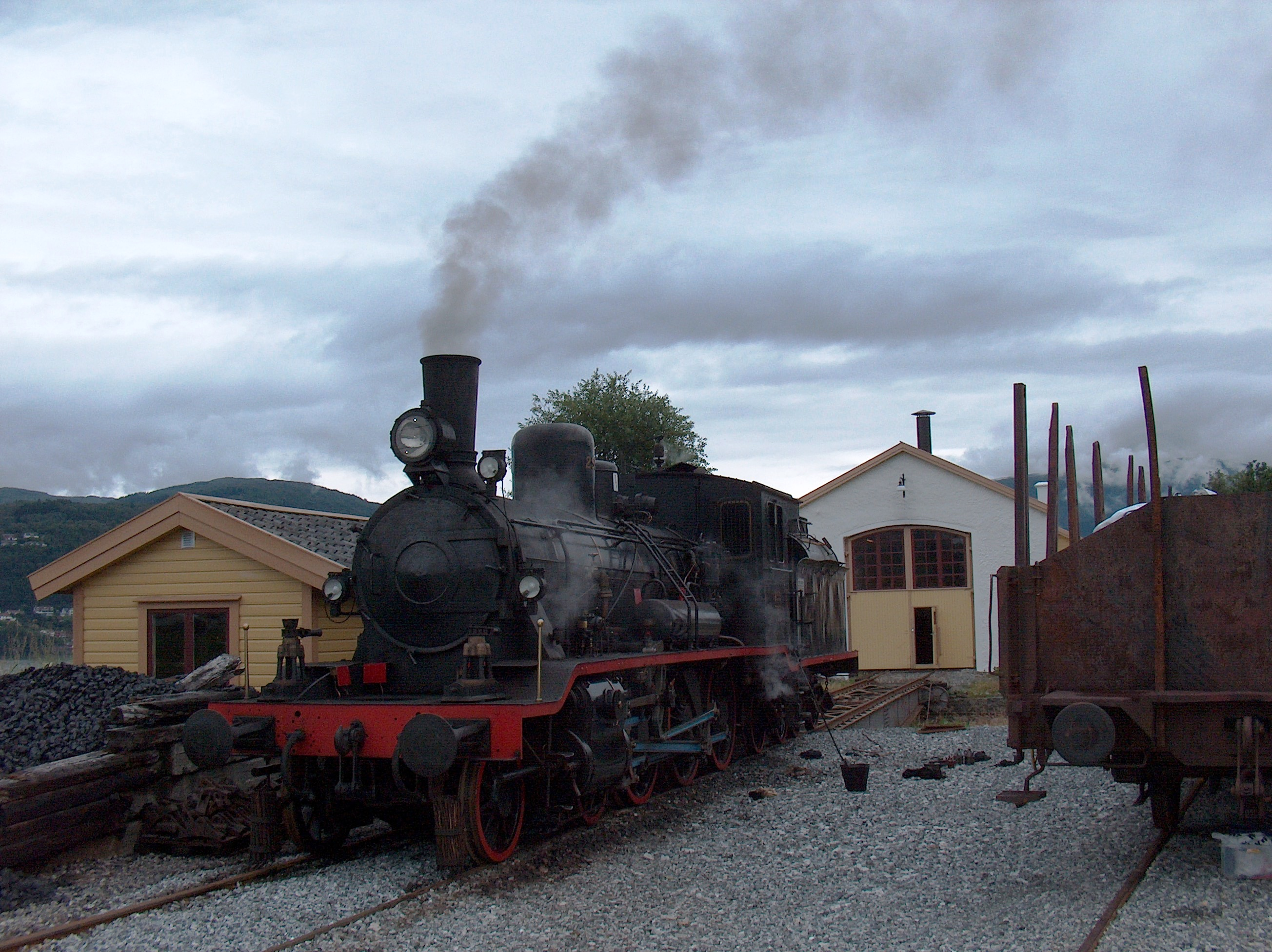 Norwegian steam locomotive, photo taken in Arna, Norway (close to Bergen).